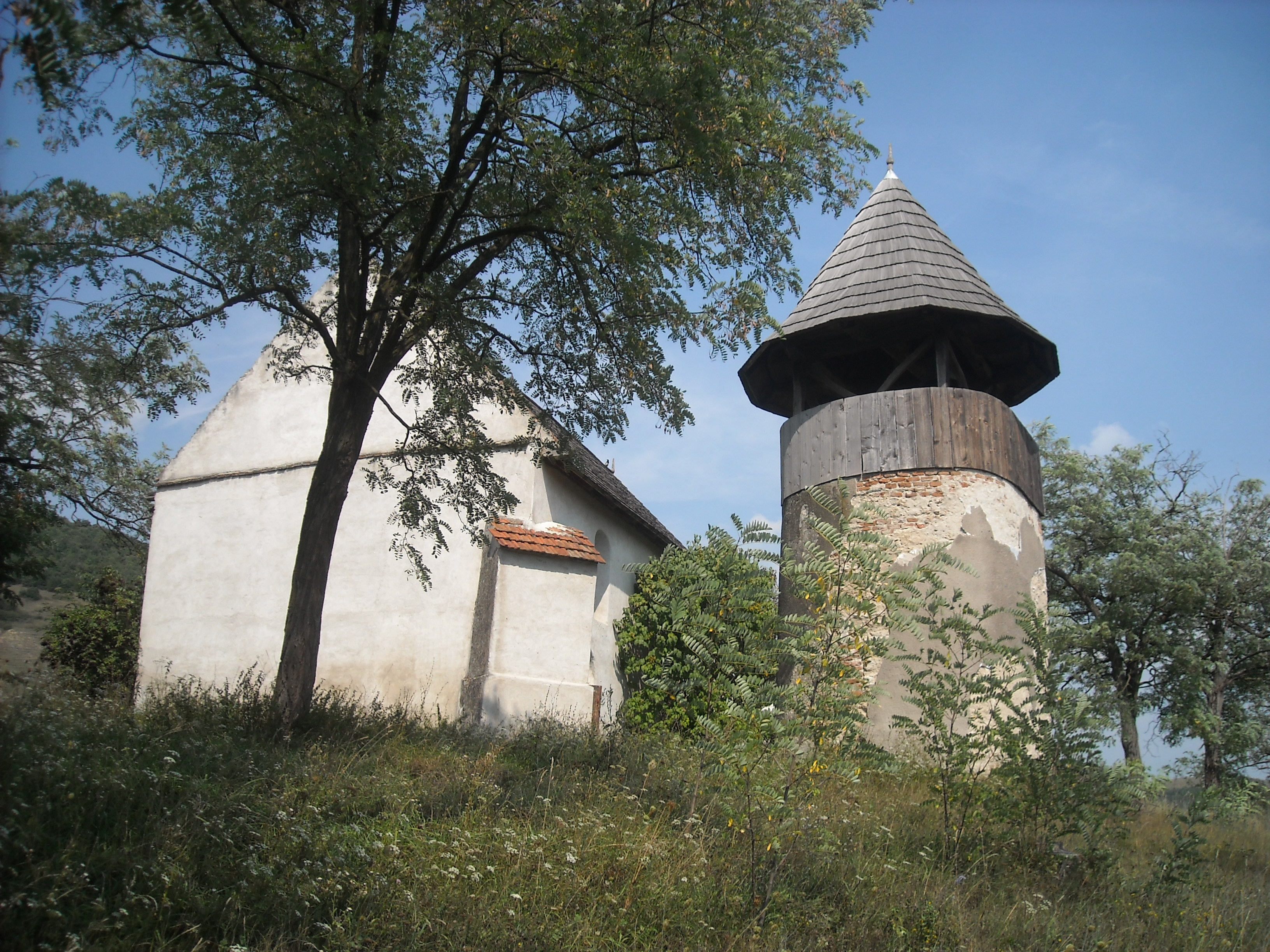 reformed church and belfry in Chimindia (Kéménd), Hunedoara County, Romania